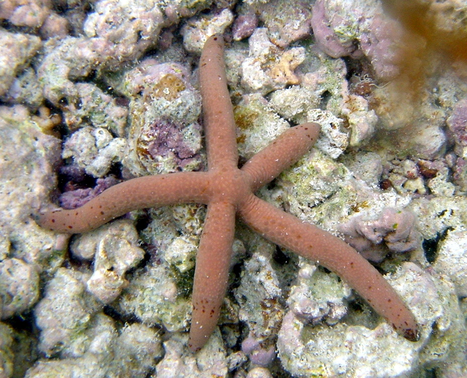 A small brown starfish (Linckia multifora) - a spotted linckia Image ID: reef0605, NOAA's Coral Kingdom Collection Location: Northwest Hawaiian Islands